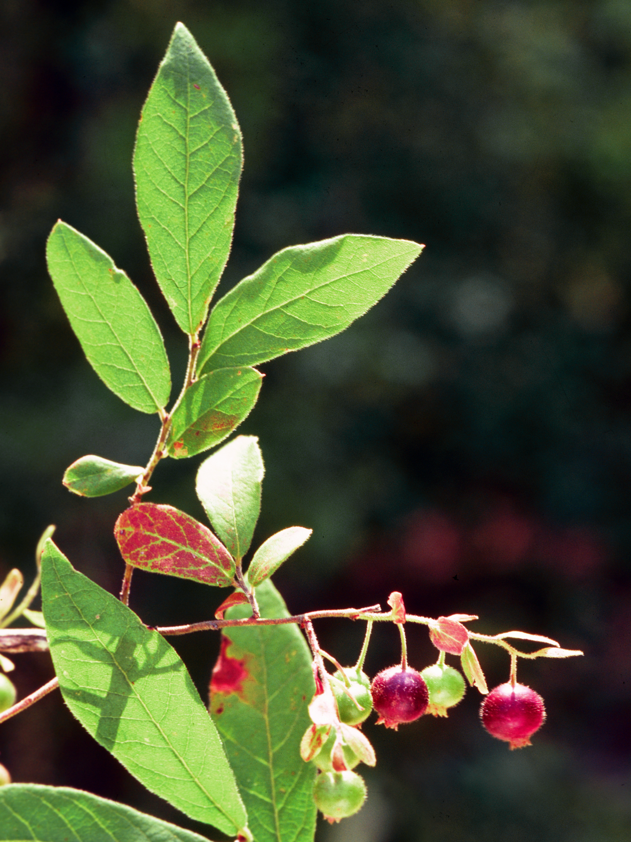 Deerberry, Vaccinium stamineum, in August. Photo from Forest Plants of the Southeast and Their Wildlife Uses by J.H. Miller and K.V. Miller, published by The University of Georgia Press in cooperation with the Southern Weed Science Society. Contact: James H. Miller, USDA Forest Service